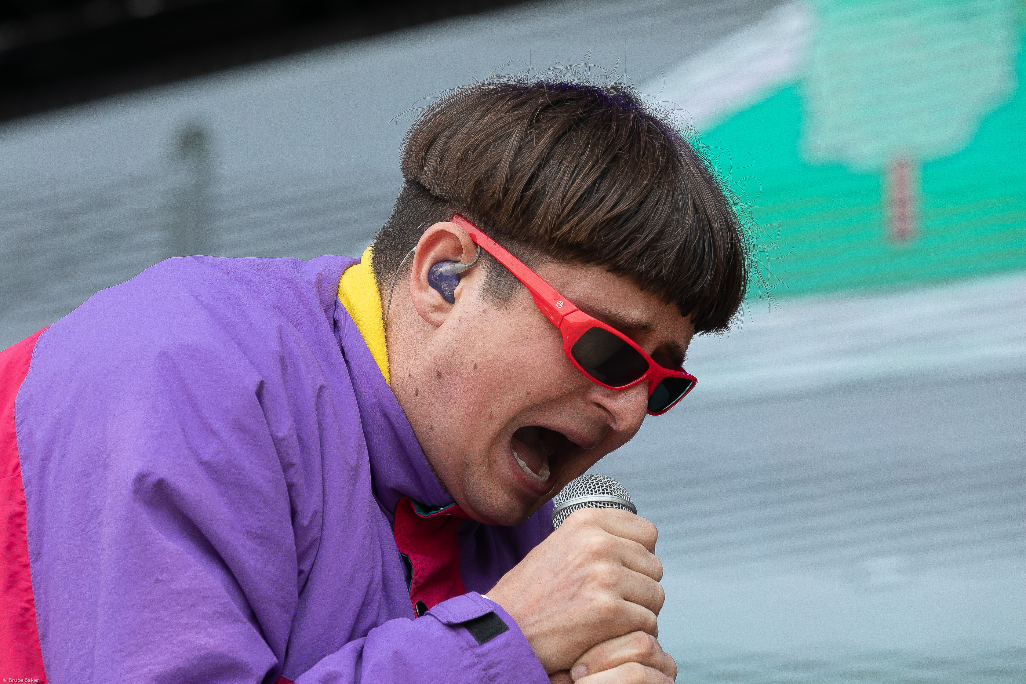 Oliver Tree